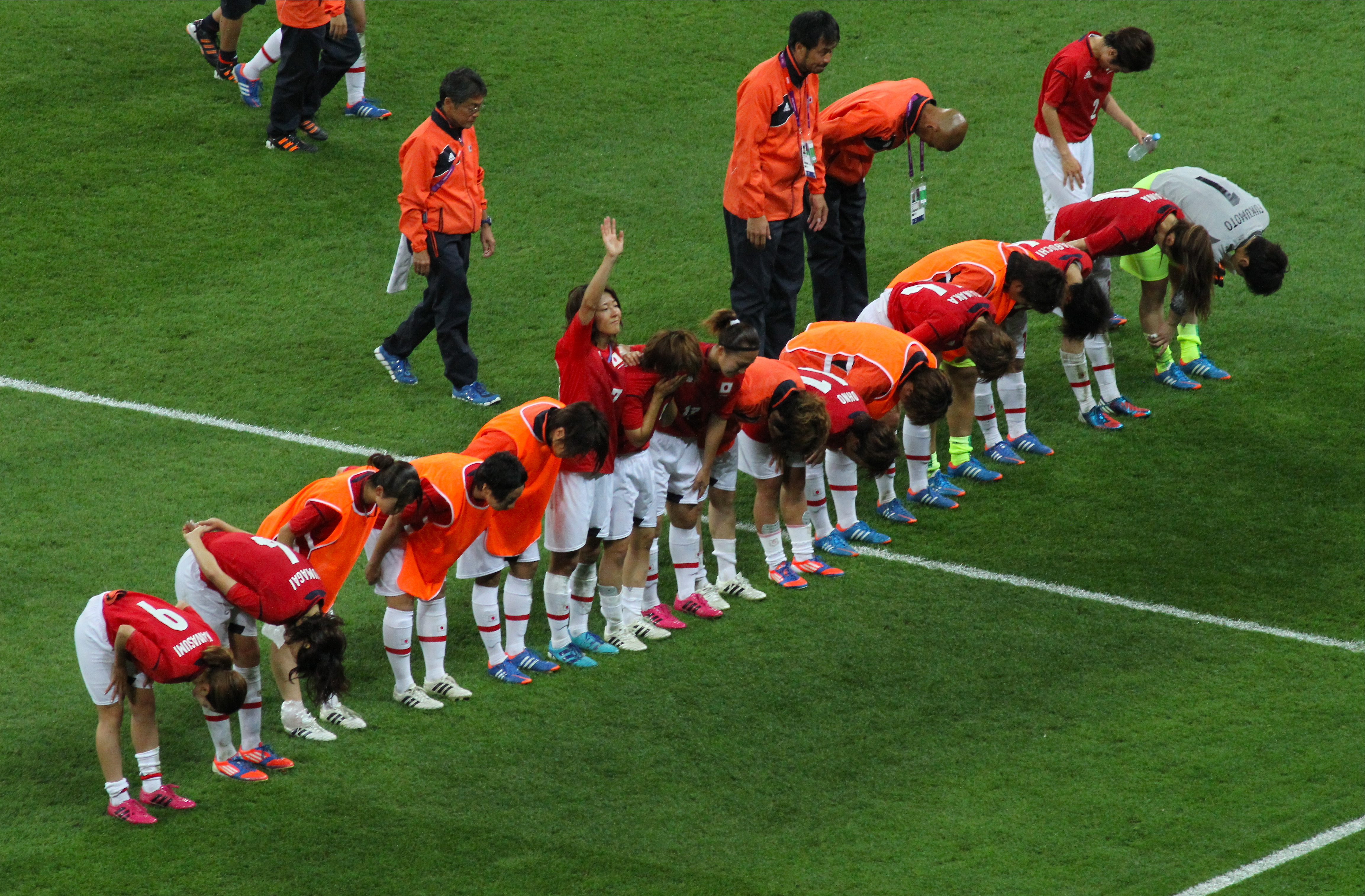 Players of Japan women's national football team (Nadeshiko Japan) thanking supporters at Wembley Stadium.